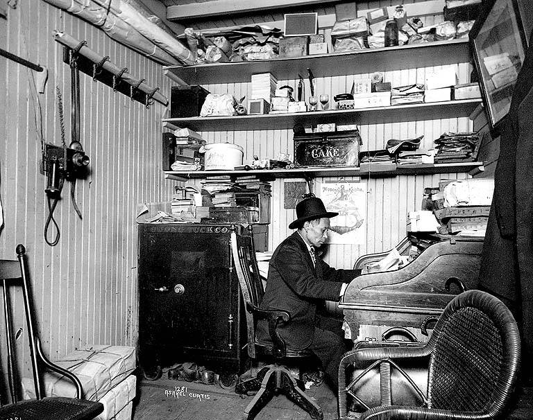 Owner of the Quong Tuck Co., 208-210 Washington St. Subjects (LCTGM): Offices--Washington (State)--Seattle Subjects (LCSH): Quong Tuck Company (Seattle, Wash.); Chin, Gee Hee